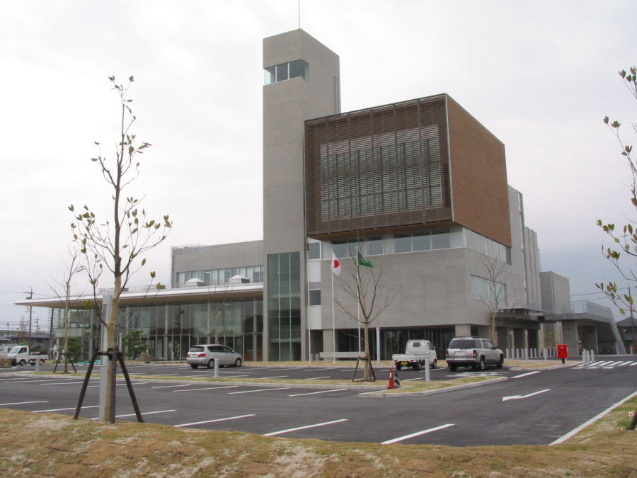 Kawagoe townhall 川越町役場 三重県三重郡川越町豊田一色で撮影